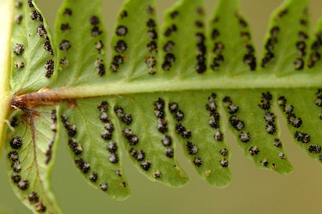 Picture taken in Commanster, Belgian High Ardennes . Species: Oreopteris limbosperma